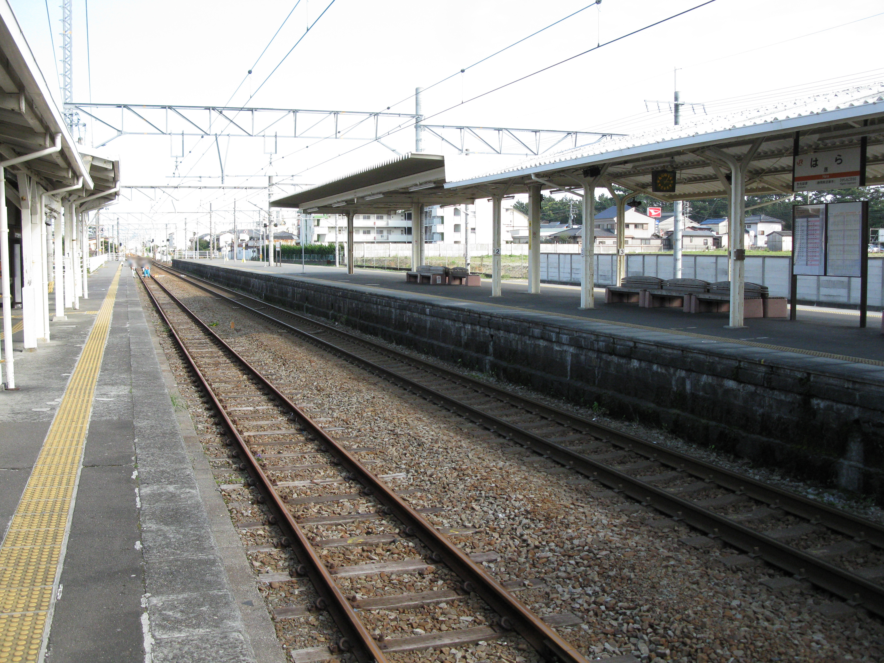 Hara Station platform (Central Japan Railway(JR Central) Tōkaidō Main Line)